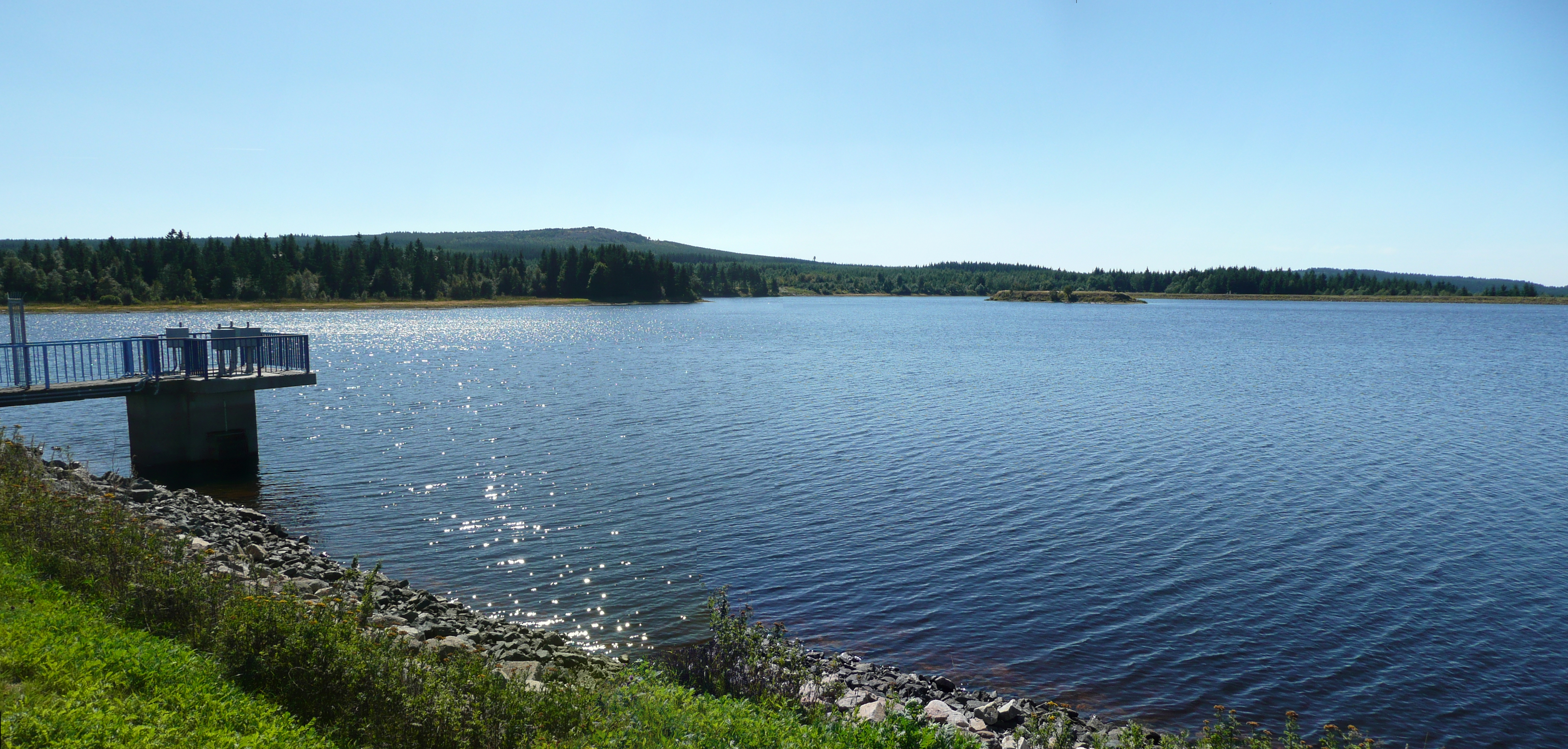 Reservoir "Großer Galgenteich" in Altenberg, Saxony, Germany.